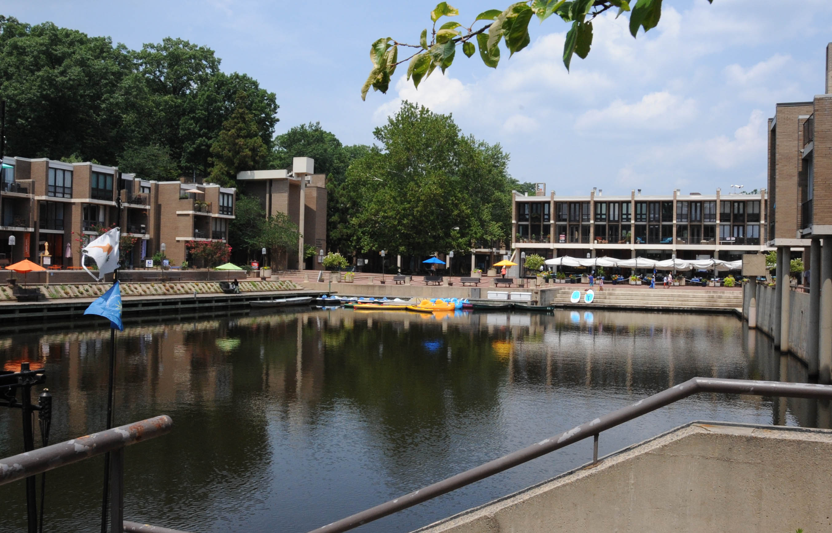 THIS PICTURE SHOWS THE INLET WITH THE RESIDENTIAL AREAS AROUND AND THE BAPTIST CHURCH IN THE CENTER